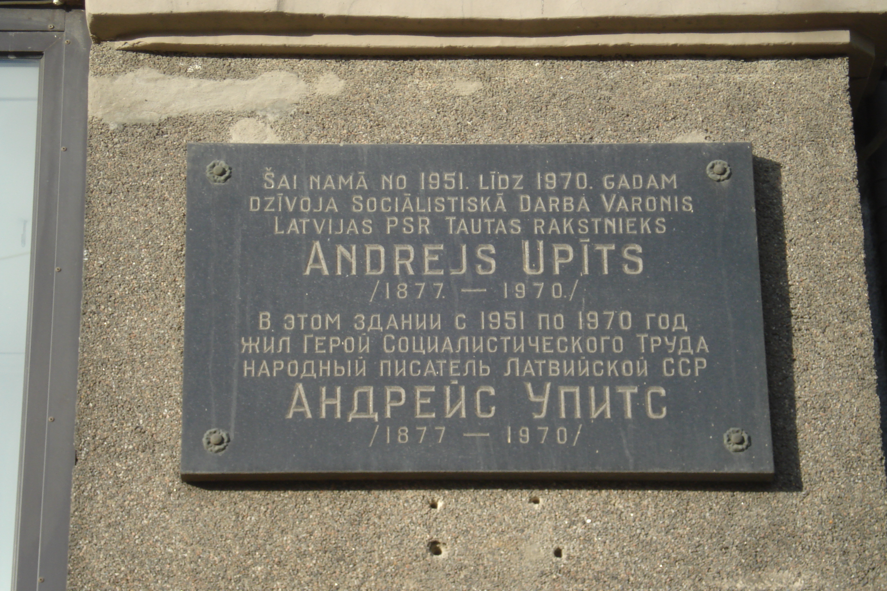 Plaque in memory of Latvian writer Andrejs Upīts (1877 — 1970) in Elizabetes street in Riga